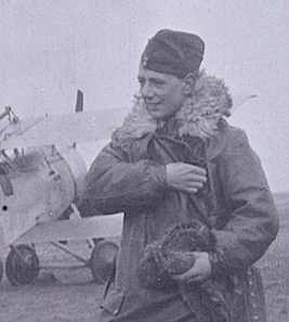 Authur Keen with 40 Squadron as a Flight Commander with his Neuiport 17 in the background. This is an edited photo from his personal archive.